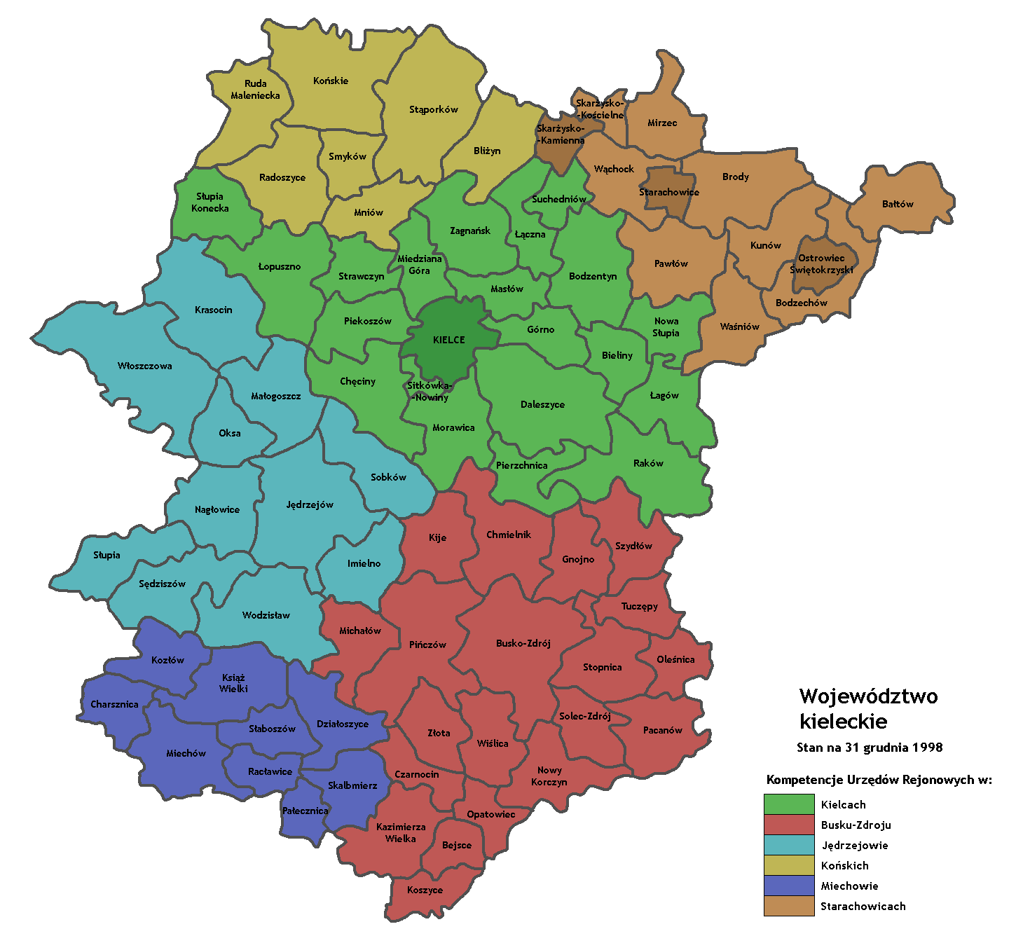 Map of Kielce voivodeship in the last day of its existence (31 december 1998).